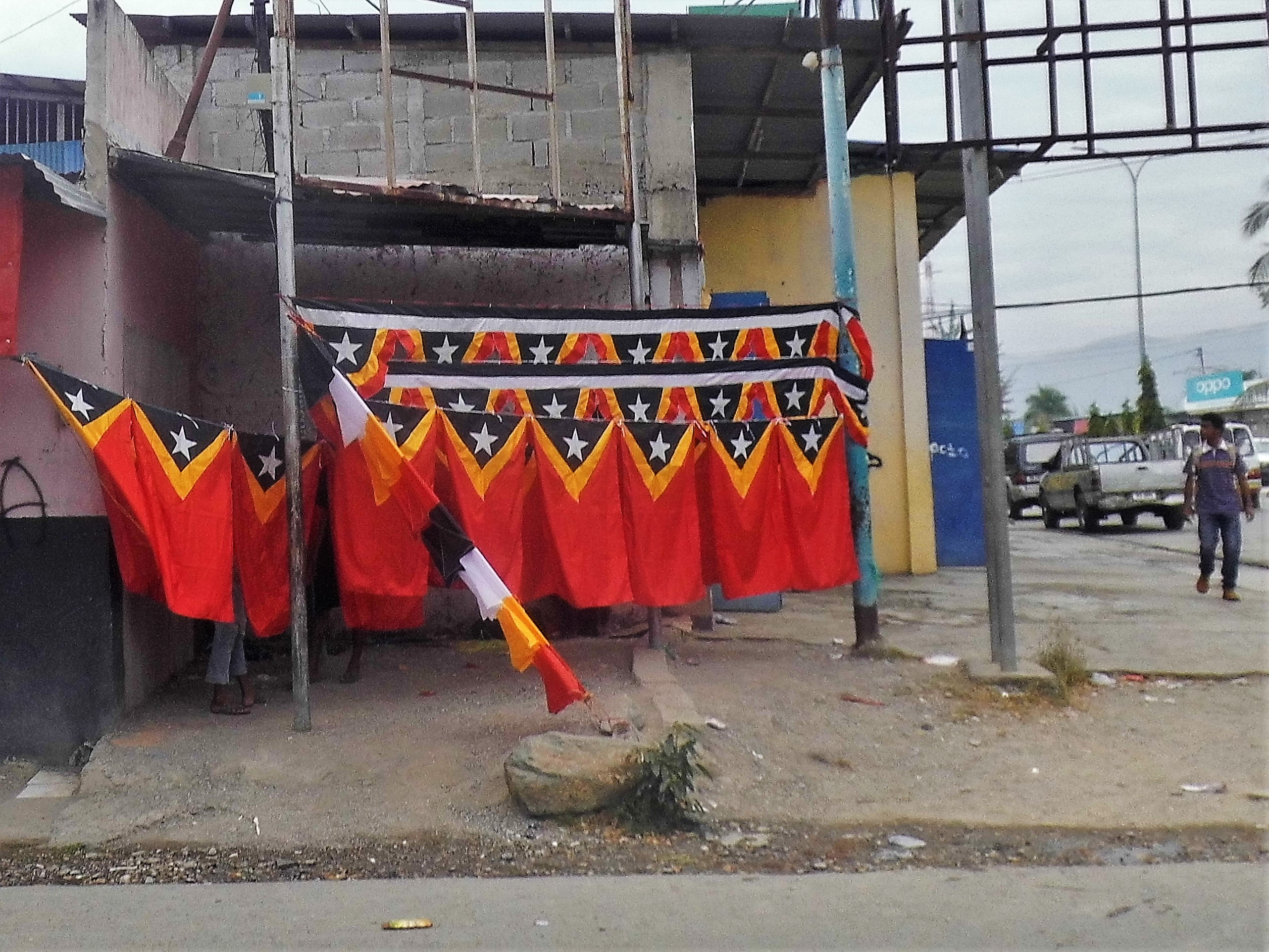 Flagseller at Rua de Campo Alor, Dili